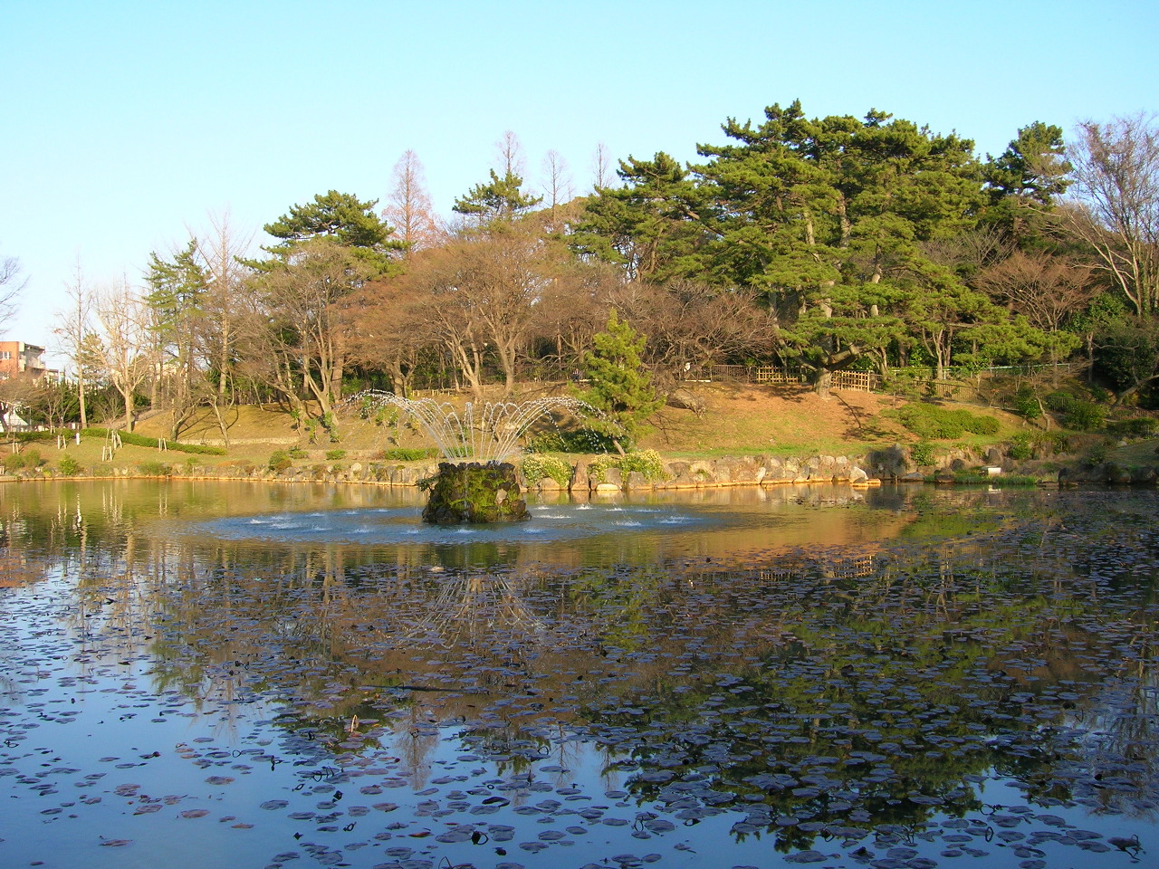 Yobitsugi kōen, Soike. (Soike pond in Yobitsugi park) Loc: Minami-ku, Nagoya city, Aichi Prefecture, Japan. 呼続公園 曽池 撮影場所 愛知県名古屋市南区